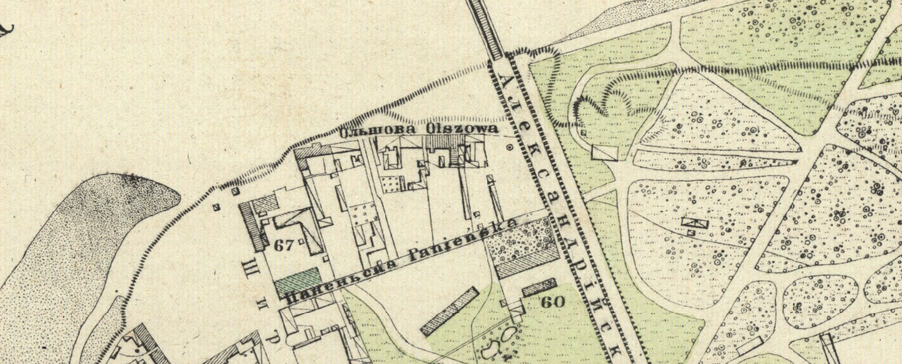 Olszowa Street on the plan of the town of Warsaw